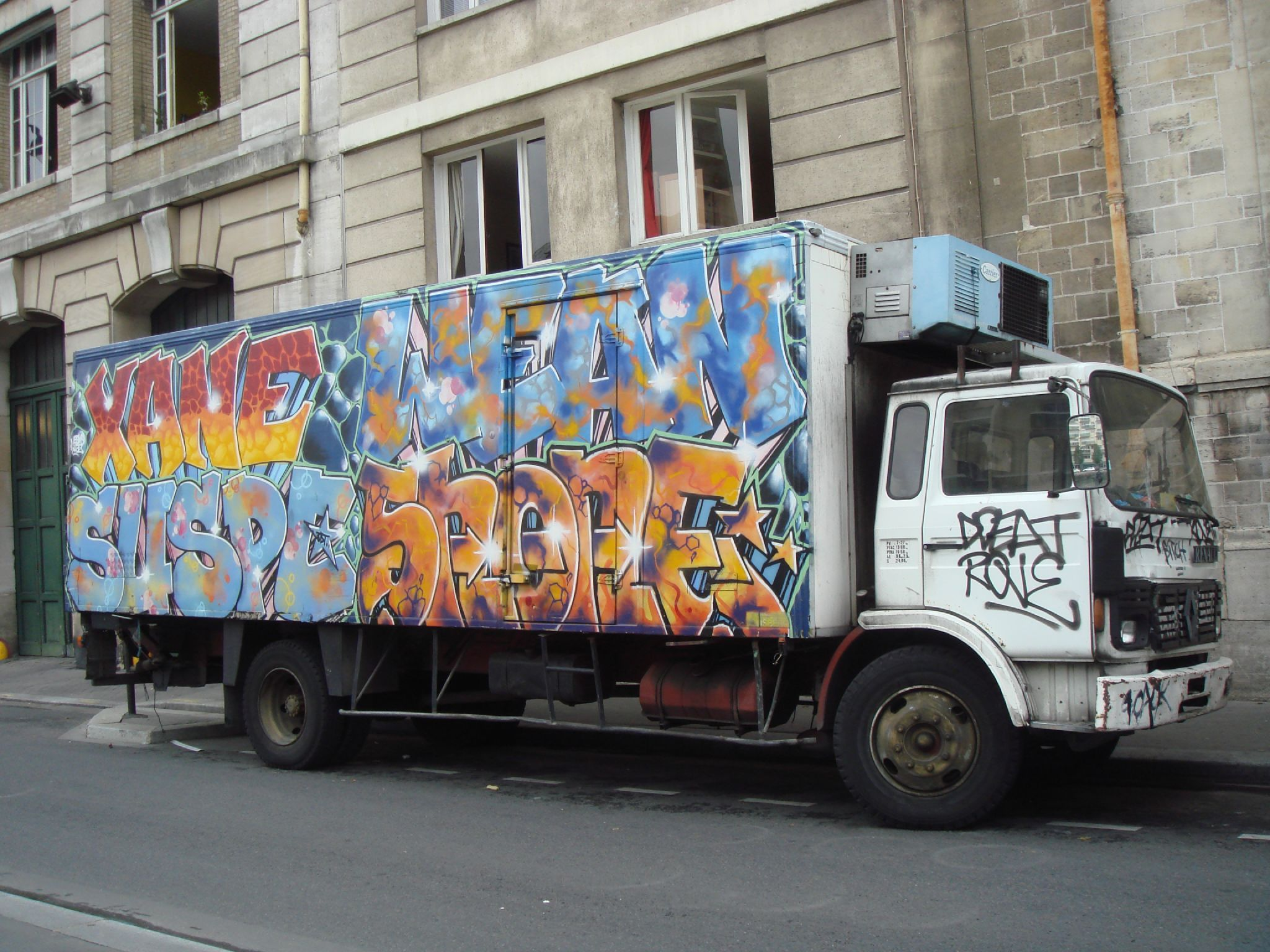 graffiti truck, paris, france